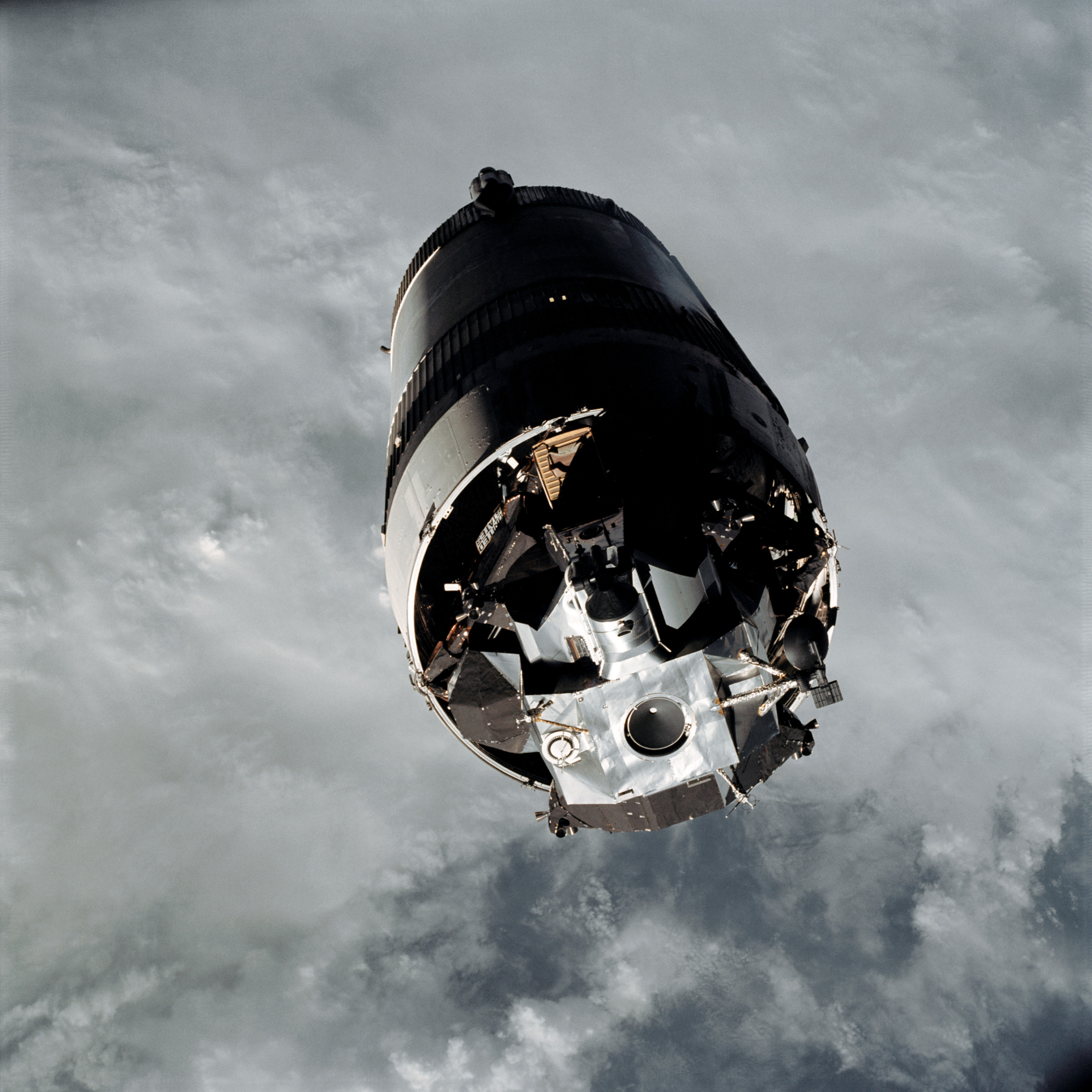 The Lunar Module (LM) "Spider", still attached to the Saturn V third (S-IVB) stage, is photographed from the Command and Service Modules (CSM) "Gumdrop" on the first day of the Apollo 9 Earth-orbital mission. This picture was taken following CSM/LM-S-IVB separation and prior to LM extraction from the S-IVB. The Spacecraft Lunar Module Adapter (SLA) panels have already been jettisoned. Inside the Command Module were astronauts James A. McDivitt, commander; David R. Scott, command module pilot; and Russell L. Schweickart, lunar module pilot.